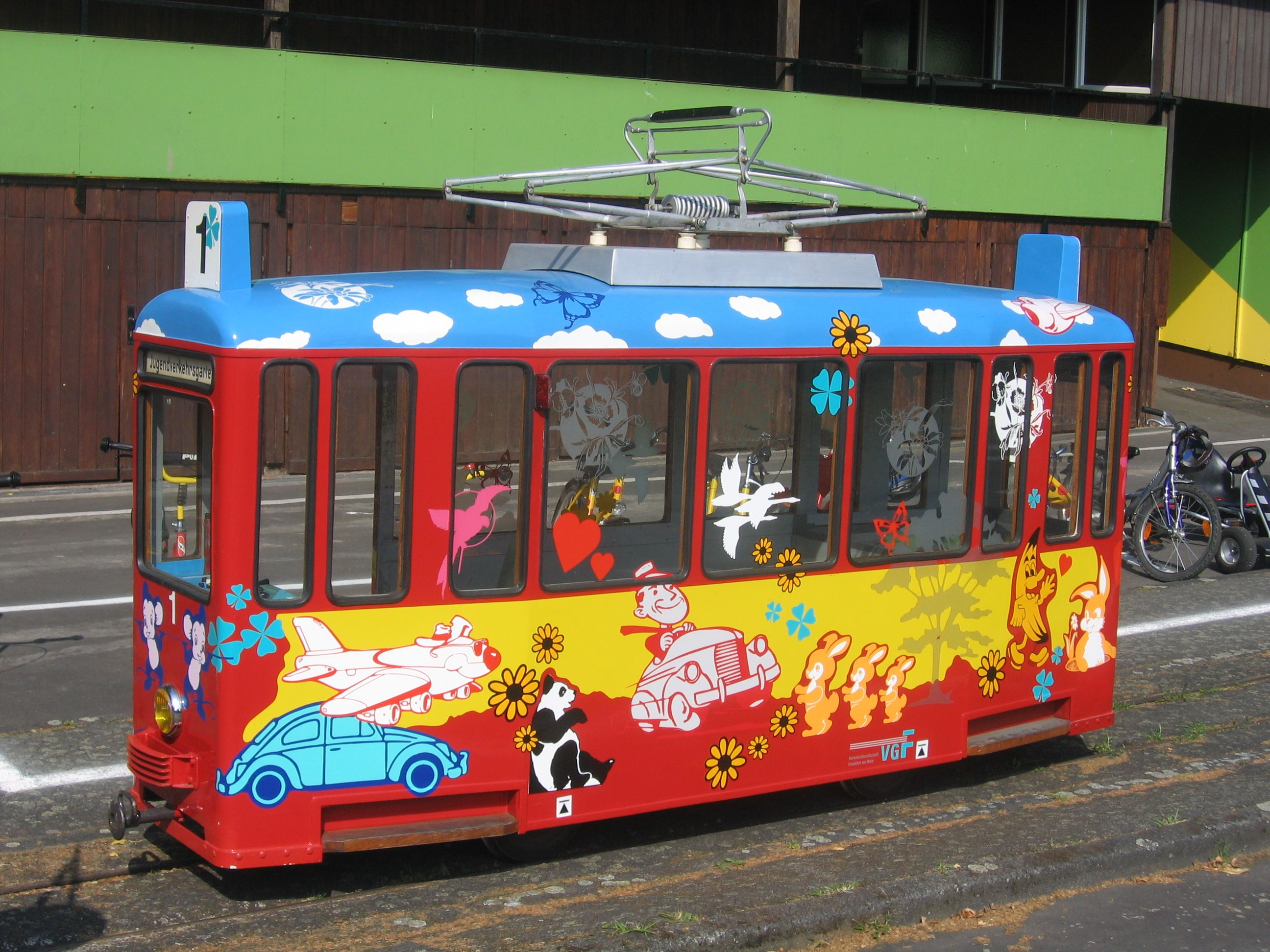 Kinderstraßenbahn im Jugendverkehrsgarten Frankfurt am Main